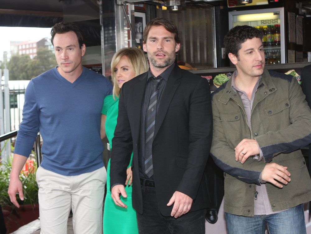 Cast and writers of American Reunion at a media event at Harry's Cafe de Wheels in Woollomooloo.